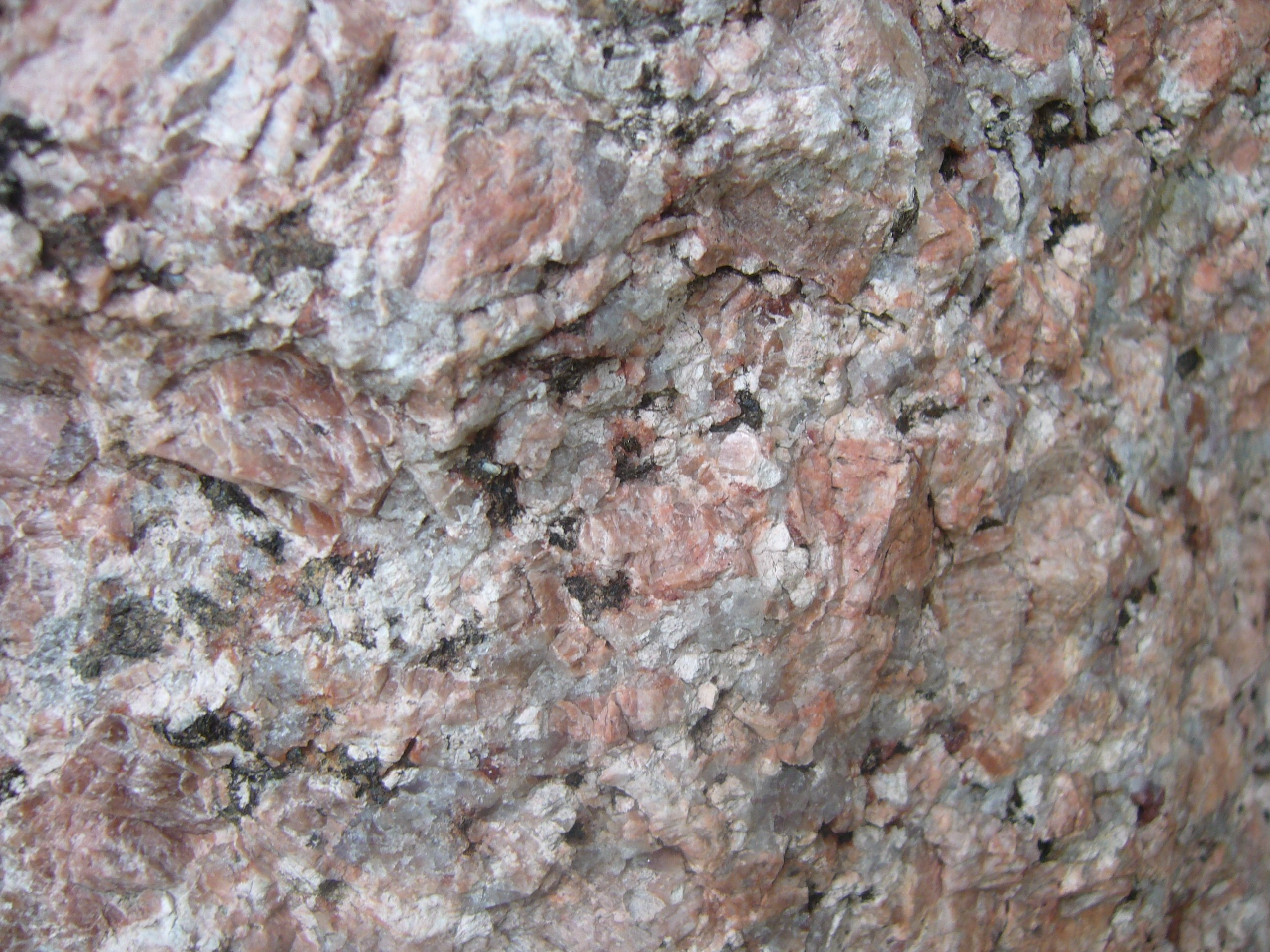 Finnish granite.